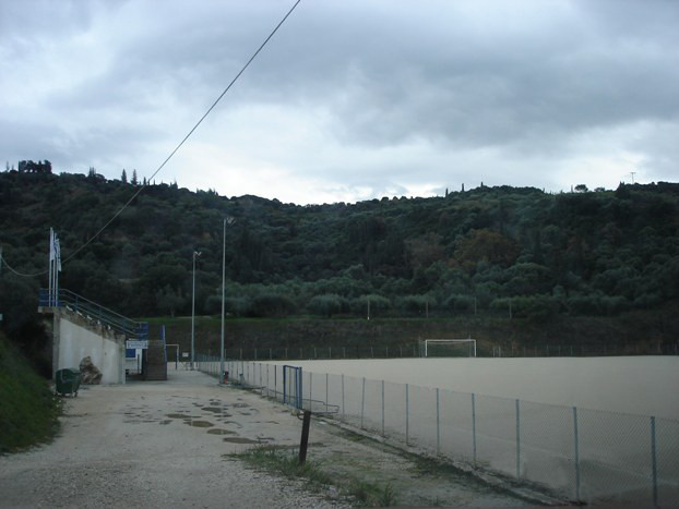 Vraxneika football Ground in Patra, Greece